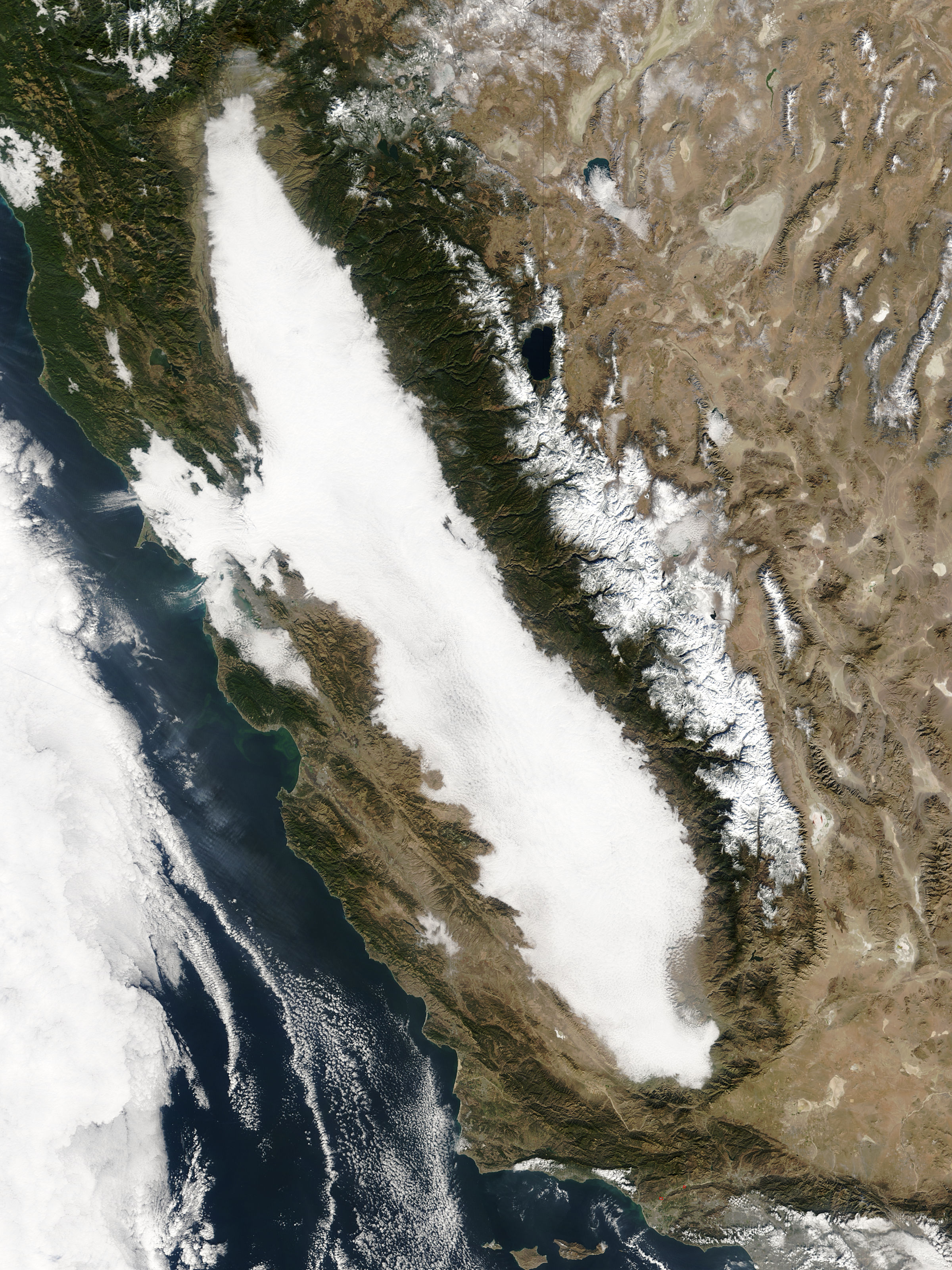 A thick bank of fog blankets the Central Valley of California. The fog is bracketed by the Cascades to the North, the Coastal Ranges to the West and the Sierra Nevada (mountains) to the East. This particular type of winter fog, or Tule fog, occurs at night when the surface cools quickly; it happens during the rainy season and can persist for weeks. Essentially, all types of fog are clouds that are in contact with ground and can reduce visibility to as little as 3 meters (10 feet) or even to zero in extreme cases. Therefore it is not surprising that Tule fog is a major hazard to navigation and is the leading cause of weather-related accidents in California. The northwestern Coastal Ranges are a vibrant green in this image, as they are home to the largest tree species on the planet. Coastal redwoods (Sequoia semperviren) are the world’s tallest trees, reaching over 112 meters (367 feet). They are mostly found in valley bottoms, where fog in the summer occurs on a regular basis and contributes to soil moisture.